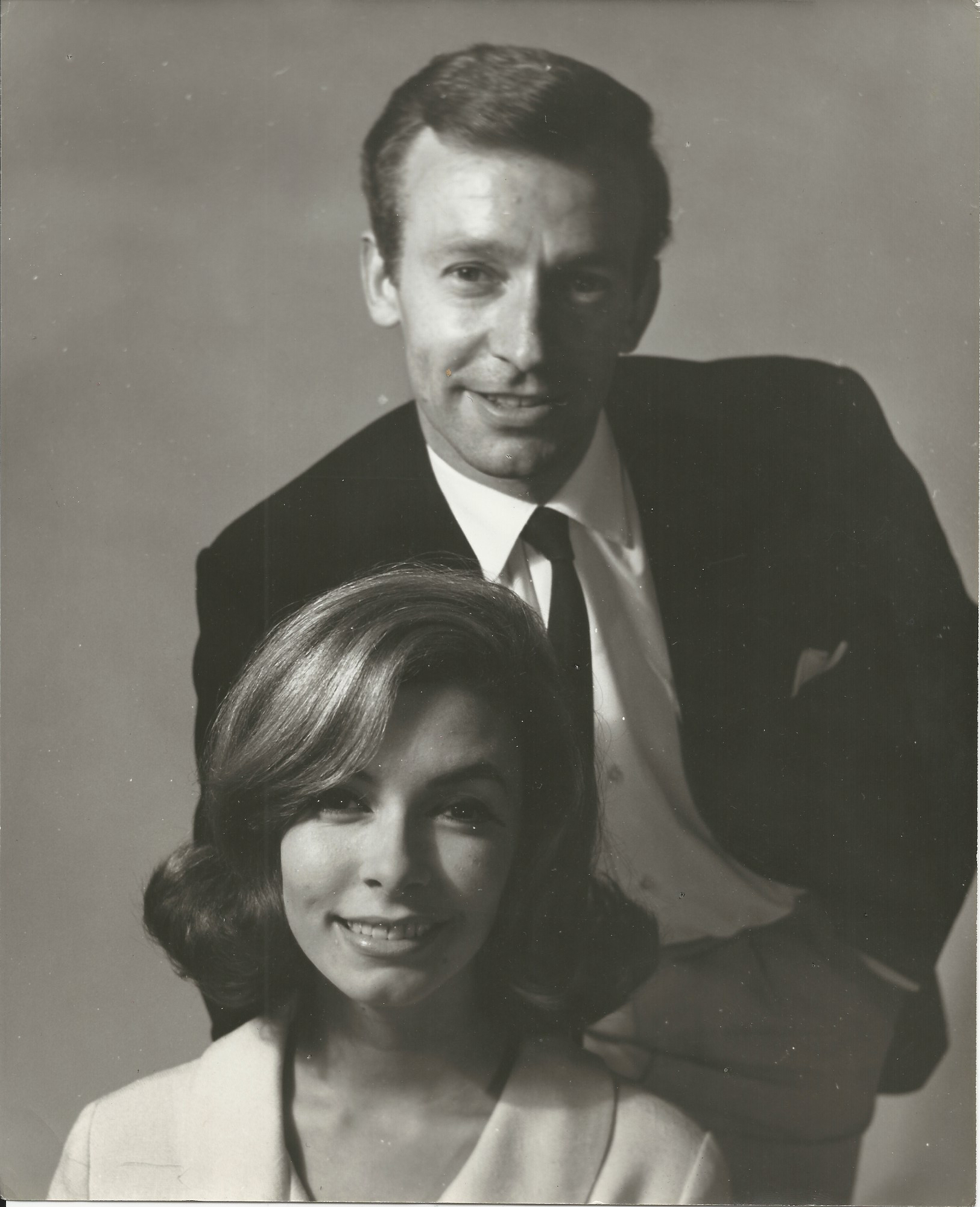 English actor and playwright Terence Frisby with wife Christine Frisby, circa 1966. Some photos of Terence Peter Michael Frisby (November 28, 1932 – April 22, 2020).